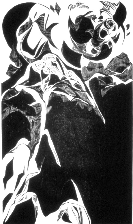 Sinai Summit, by Berta Rosenbaum Golahny, woodcut, 1970s, 36" x 20"